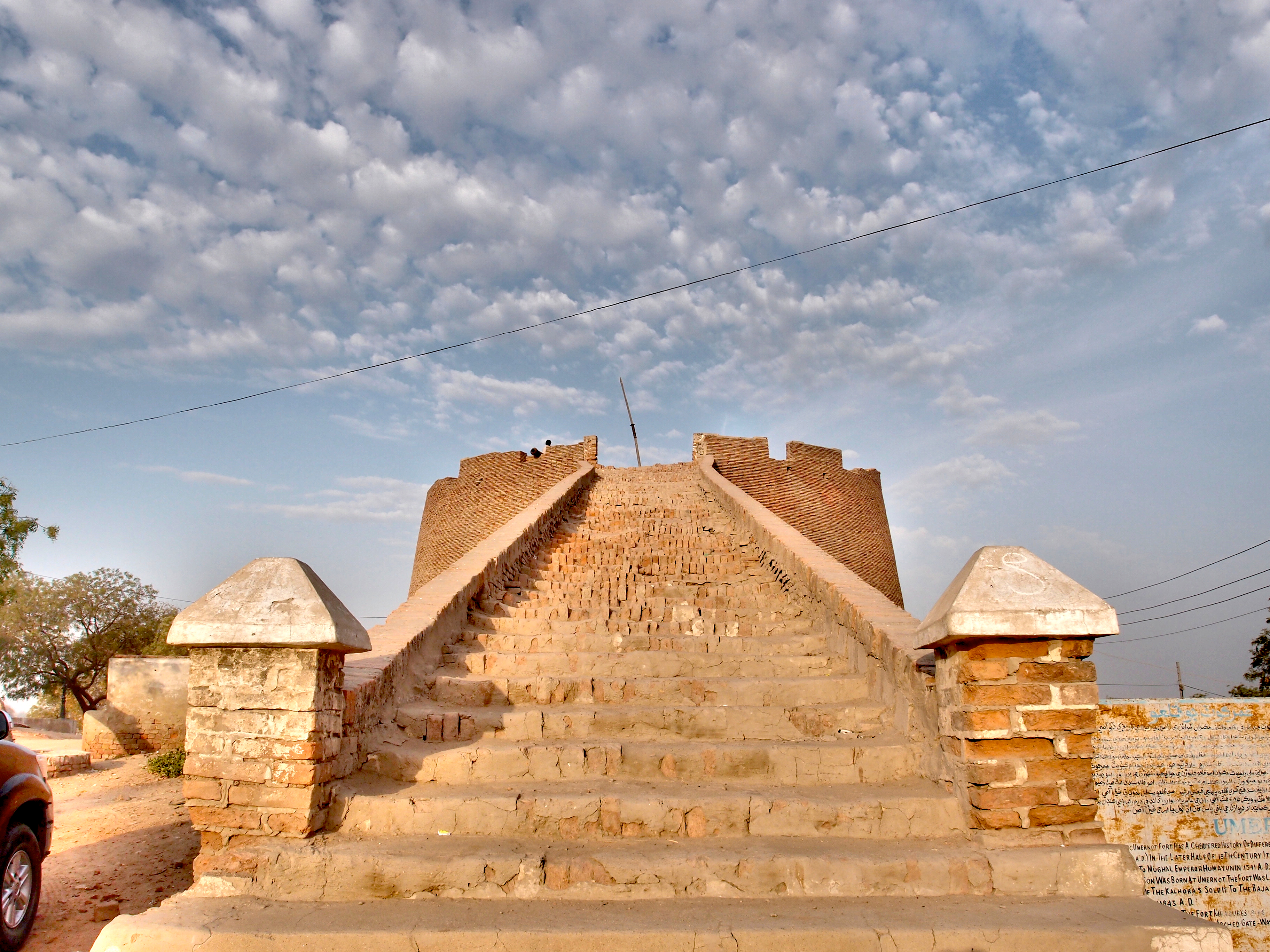 Umarkot Fort is a fort in Pakistani city of Umerkot. Emperor Akber was born inside the Umarkot Fort when his father Humayun fled from the military defeats at the hands of Sher Shah Suri on 15 October 1542.